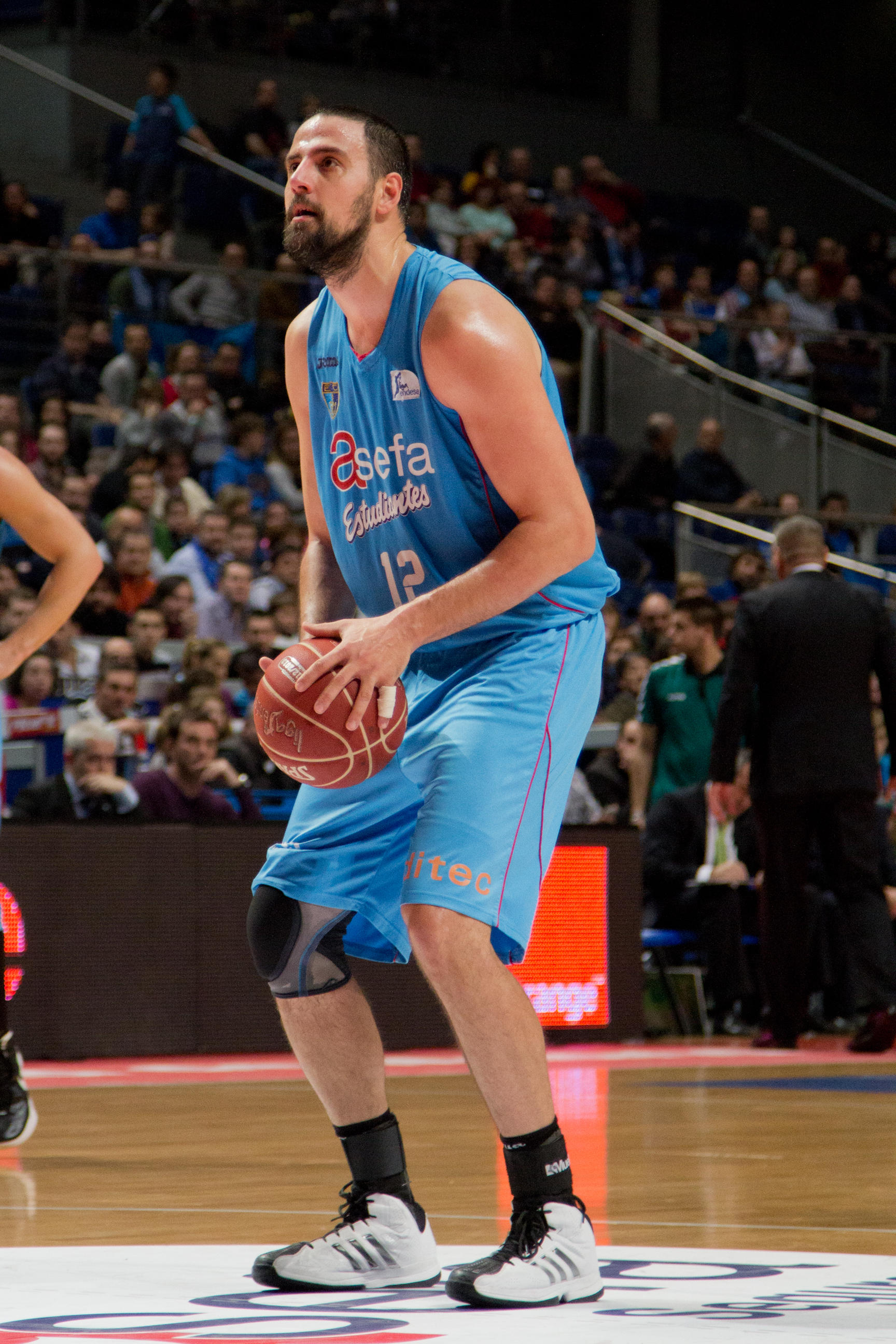 Germán Gabriel. Game Estudiantes vs Unicaja Málaga.